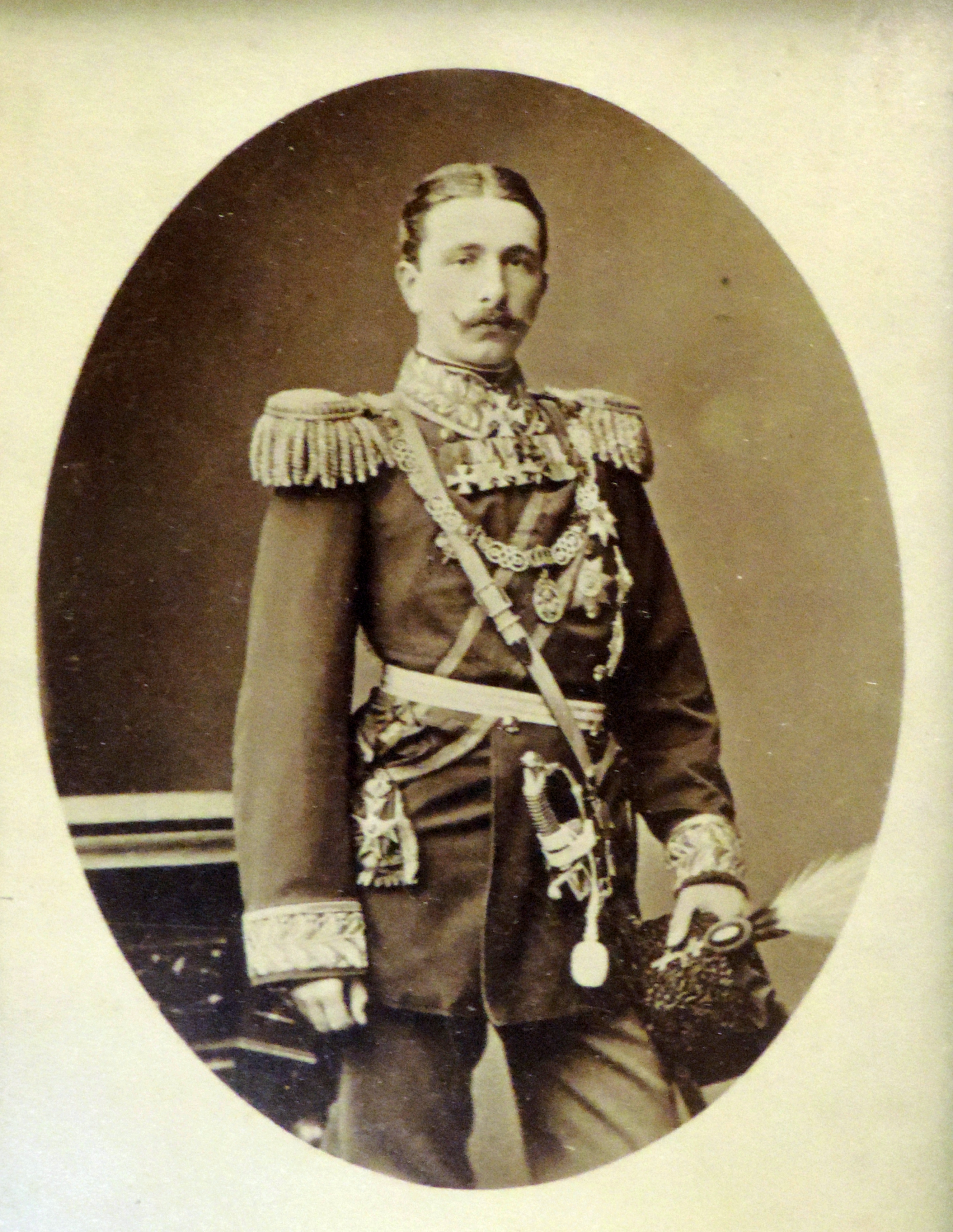 Alexander I of Bulgaria, 1879. Exhibit of the National History Museum of Bulgaria